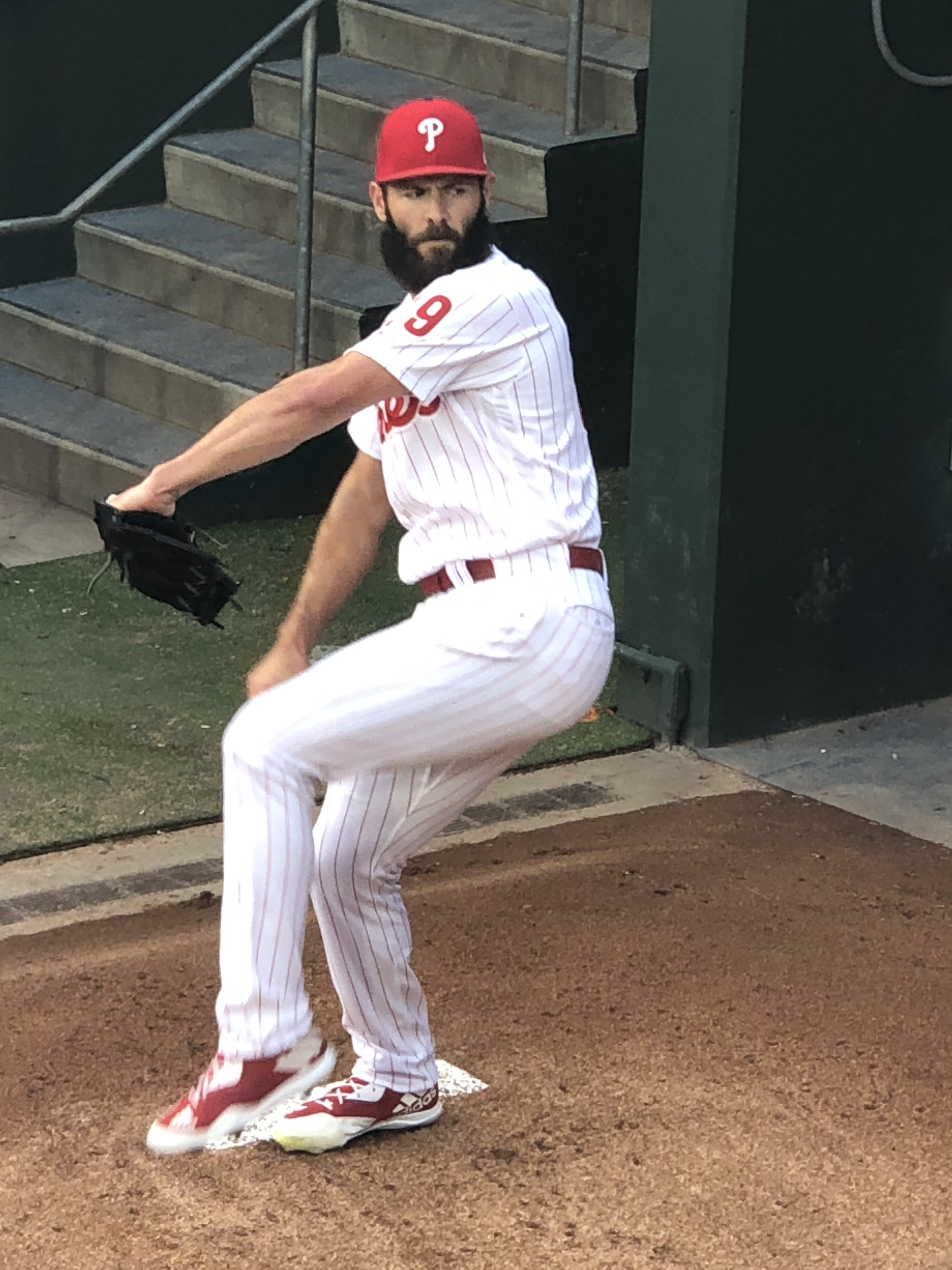 Jake Arrieta warms up in the bullpen before a start with the Philadelphia Phillies